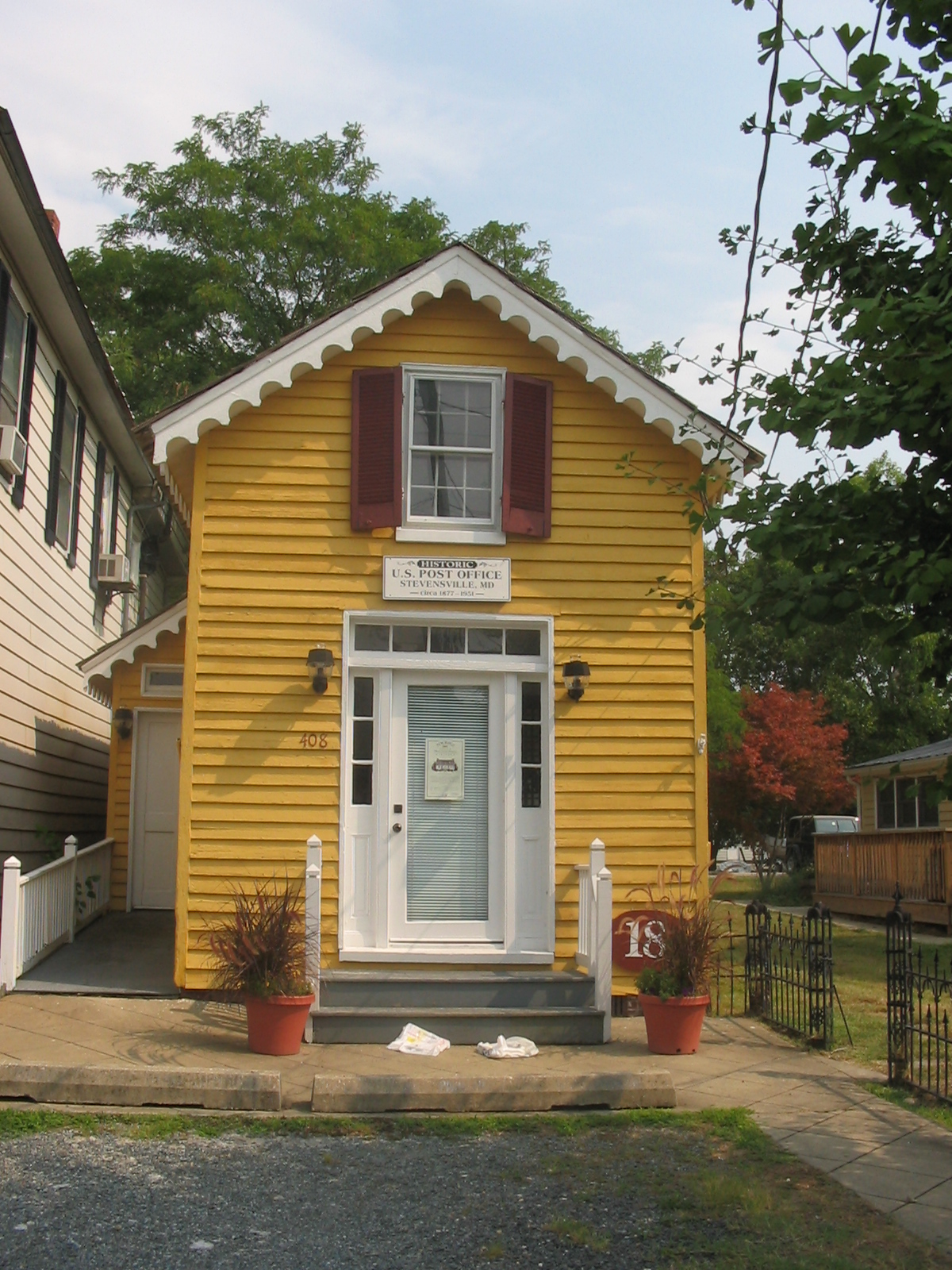 Stevensville, Maryland, August, 2007